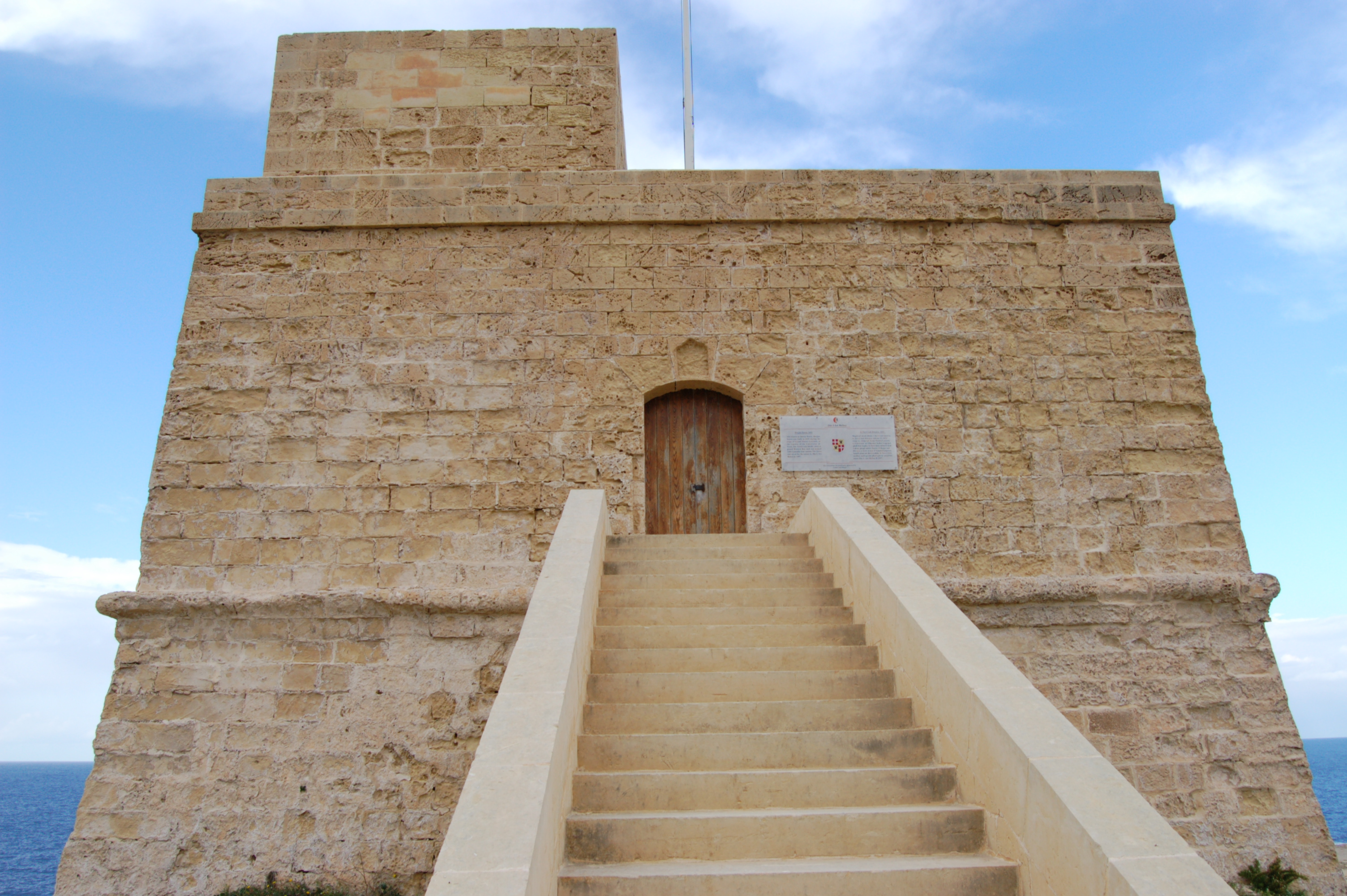 Dwejra Watch Tower, Dwejra, Gozo This media is about Maltese cultural property with inventory number 40.